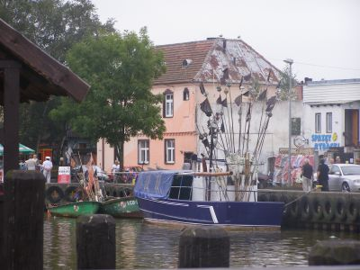 A boat in the port channel in the centre of Łeba, Poland